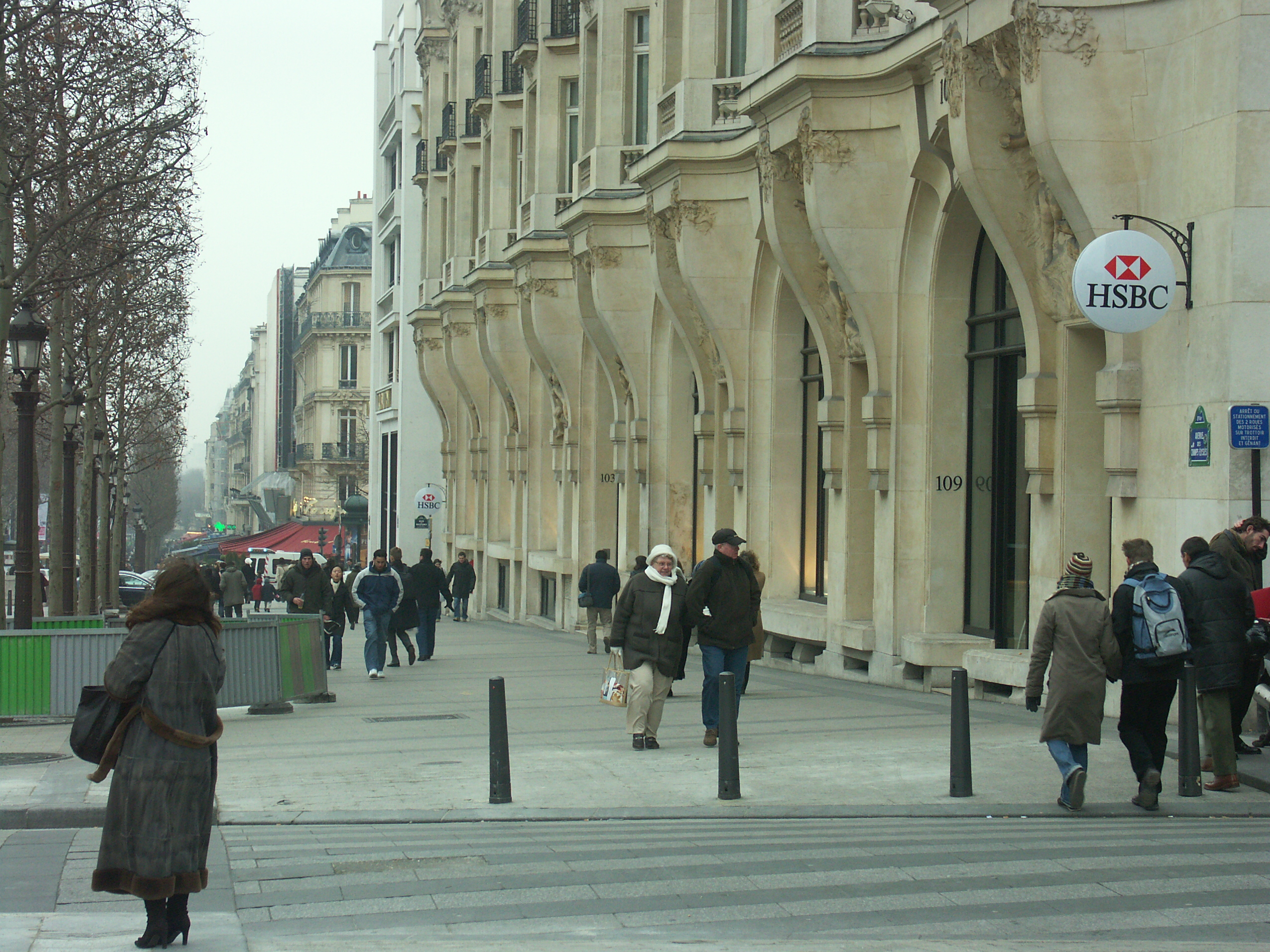 HSBC Building on the Champs-Elysées in Paris. Formerly an hôtel (Elysées-Palace). Author: Radovan Bahna, Slovak Republic